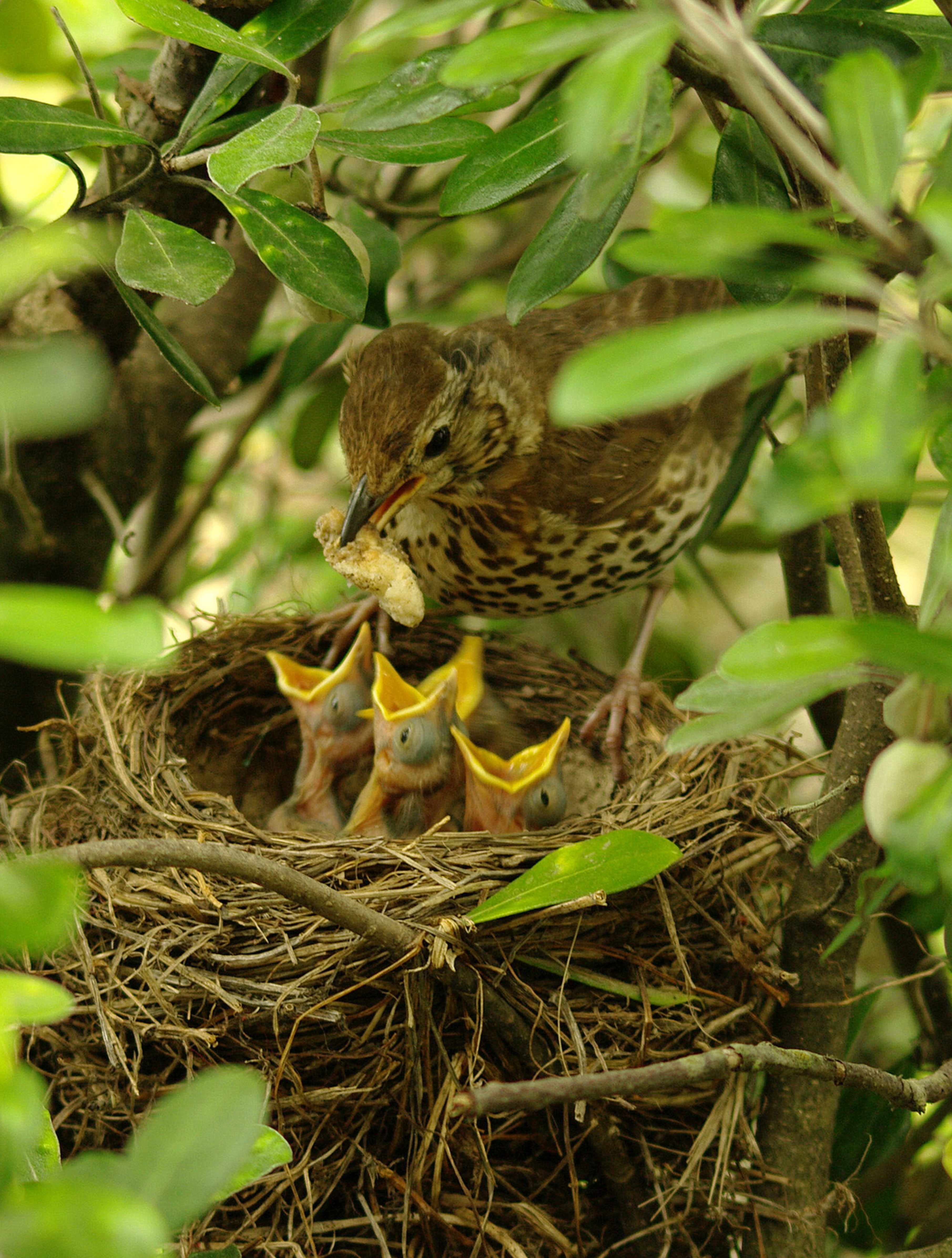 A Song Thrush family in a garden in New Zealand. It looks like the parent has some bread for the chicks.